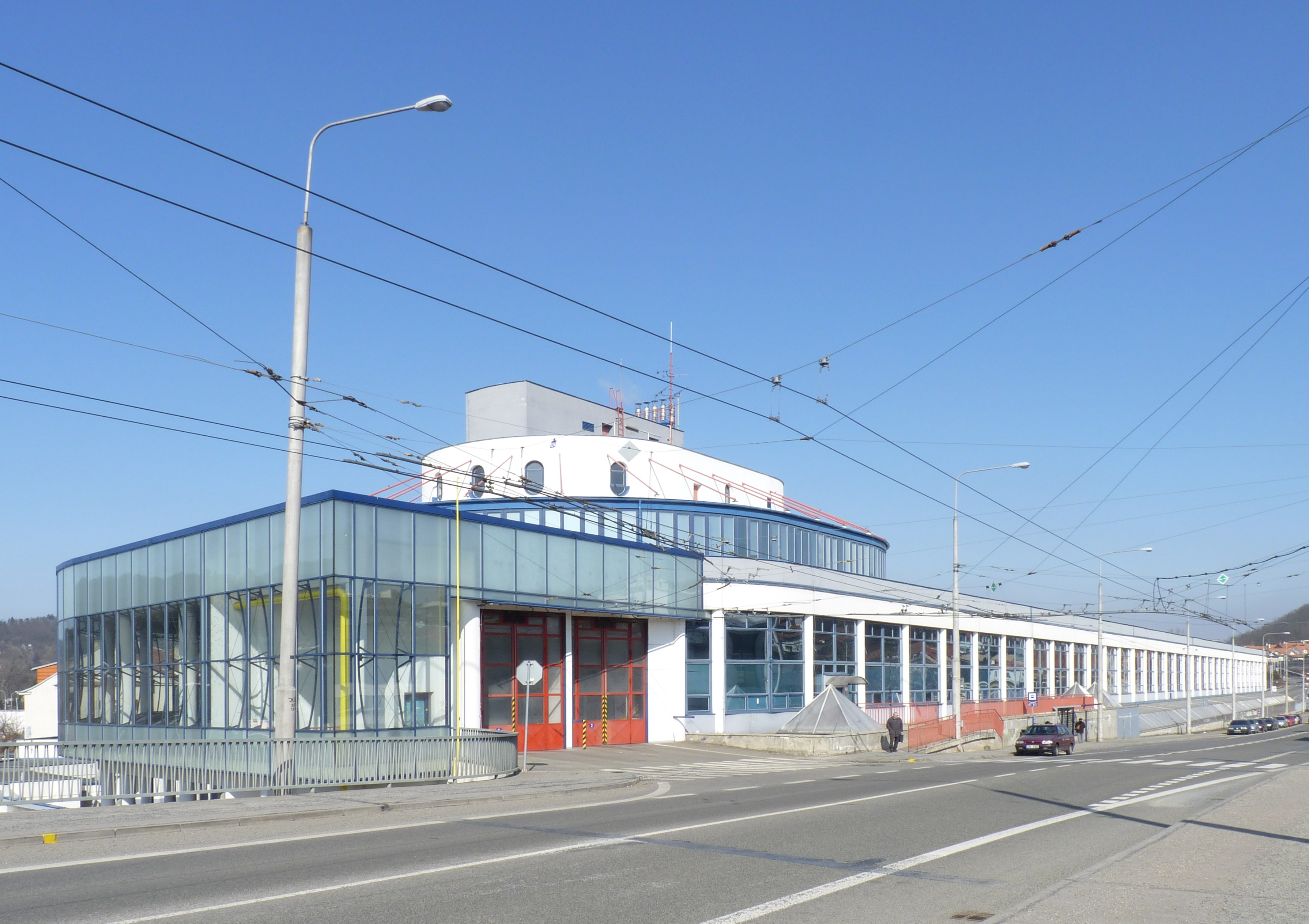 Trolleybus depot Komín in Brno-Komín, South Moravian Region, Czech Republic